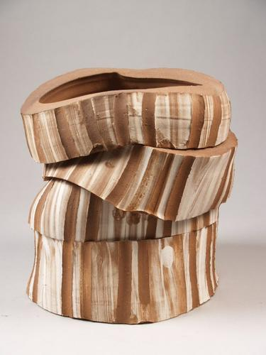 Tires pot No. 3 by Vilma Henkelman 1981